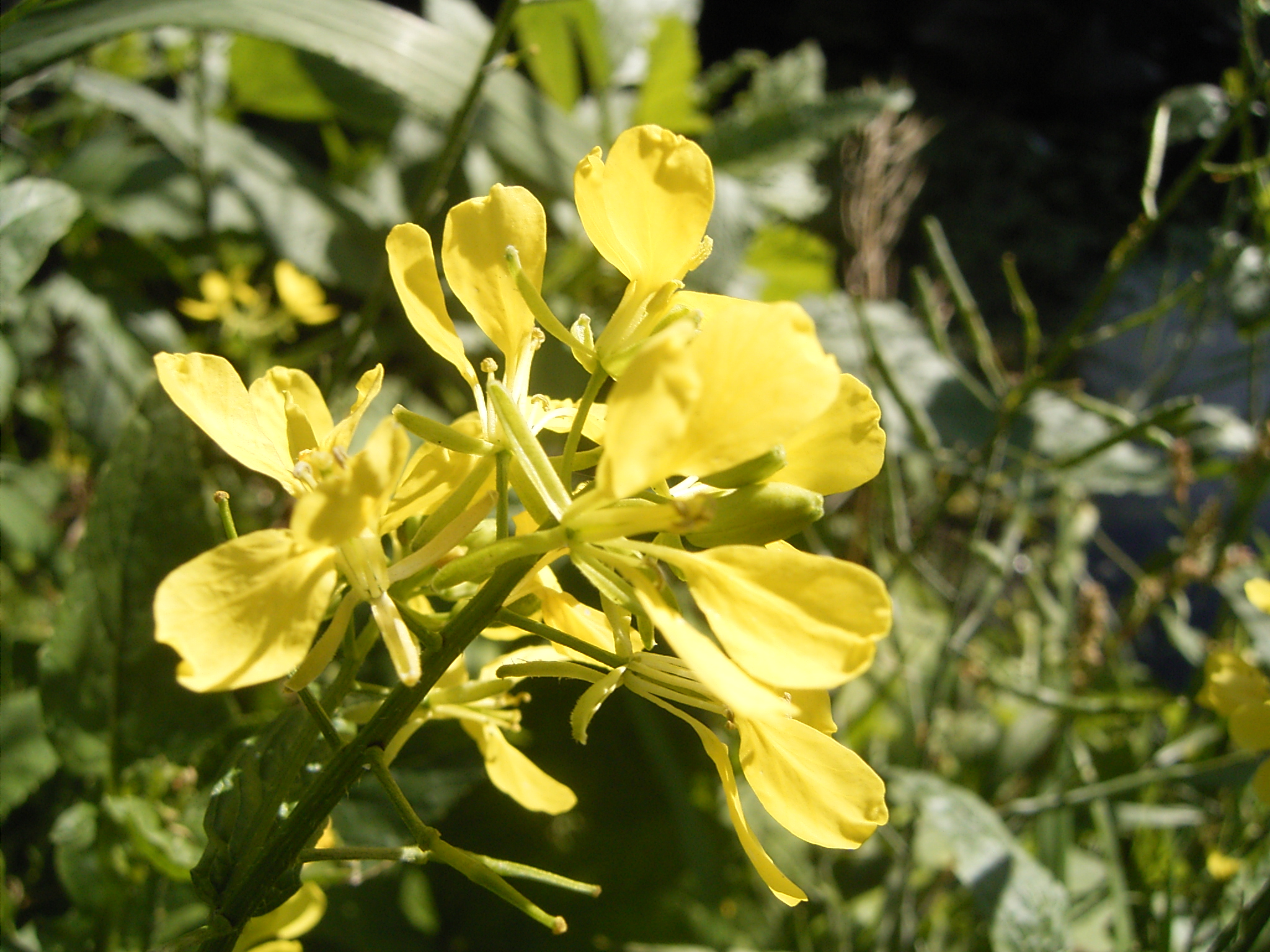 Deze foto toont de bloemen van Herik. Ik nam de foto langs een sloot in Mariahoeve in Den Haag. This photo shows the flowers of sinapis arvensis. I took the photo in The Hague, Netherlands.